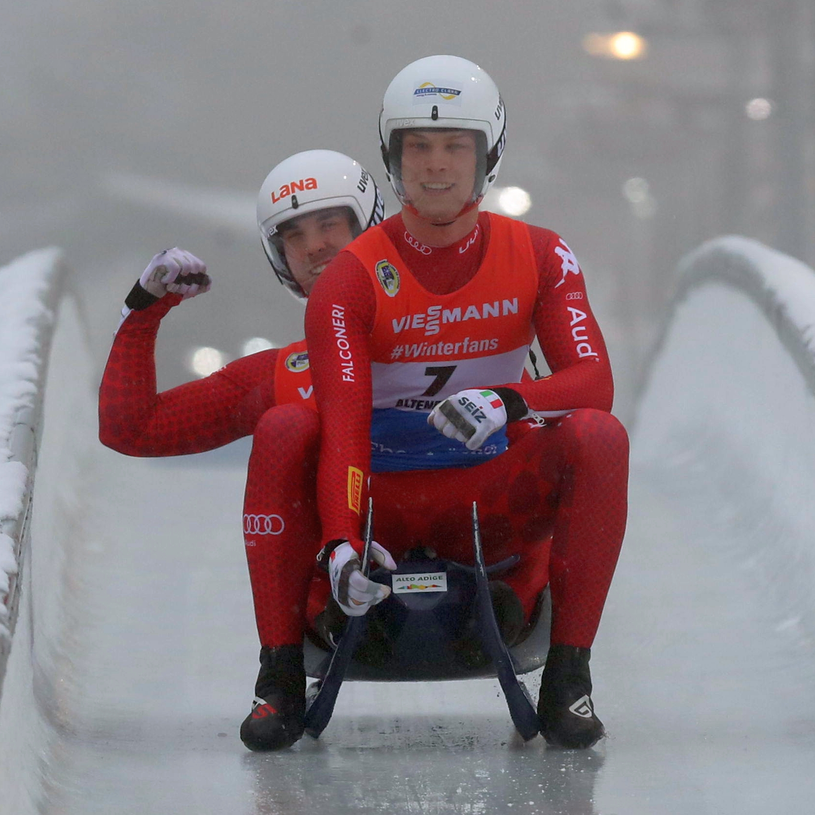 Doubles World Cup race at the 2018/19 Luge World Cup in Altenberg